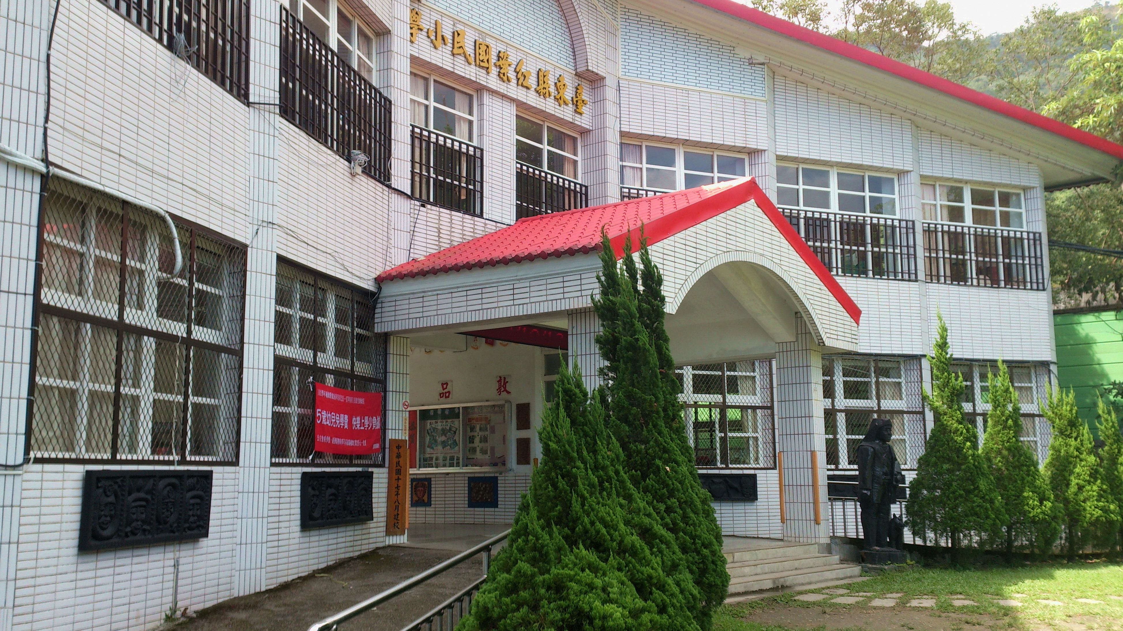 Hongye Elementary School 紅葉國小